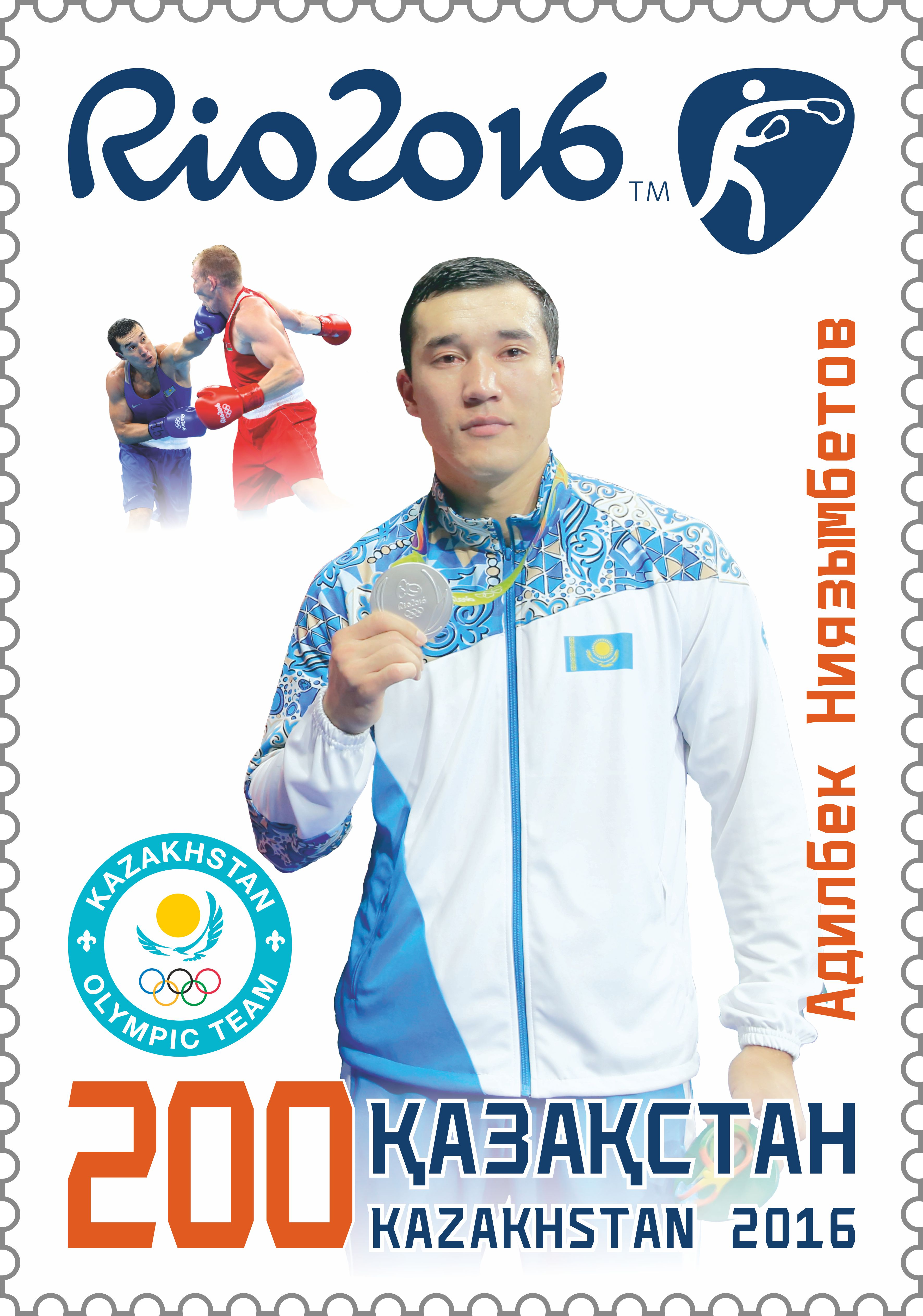 1004-1011. Sports. The XXXI Olympic Games in Rio de Janeiro.